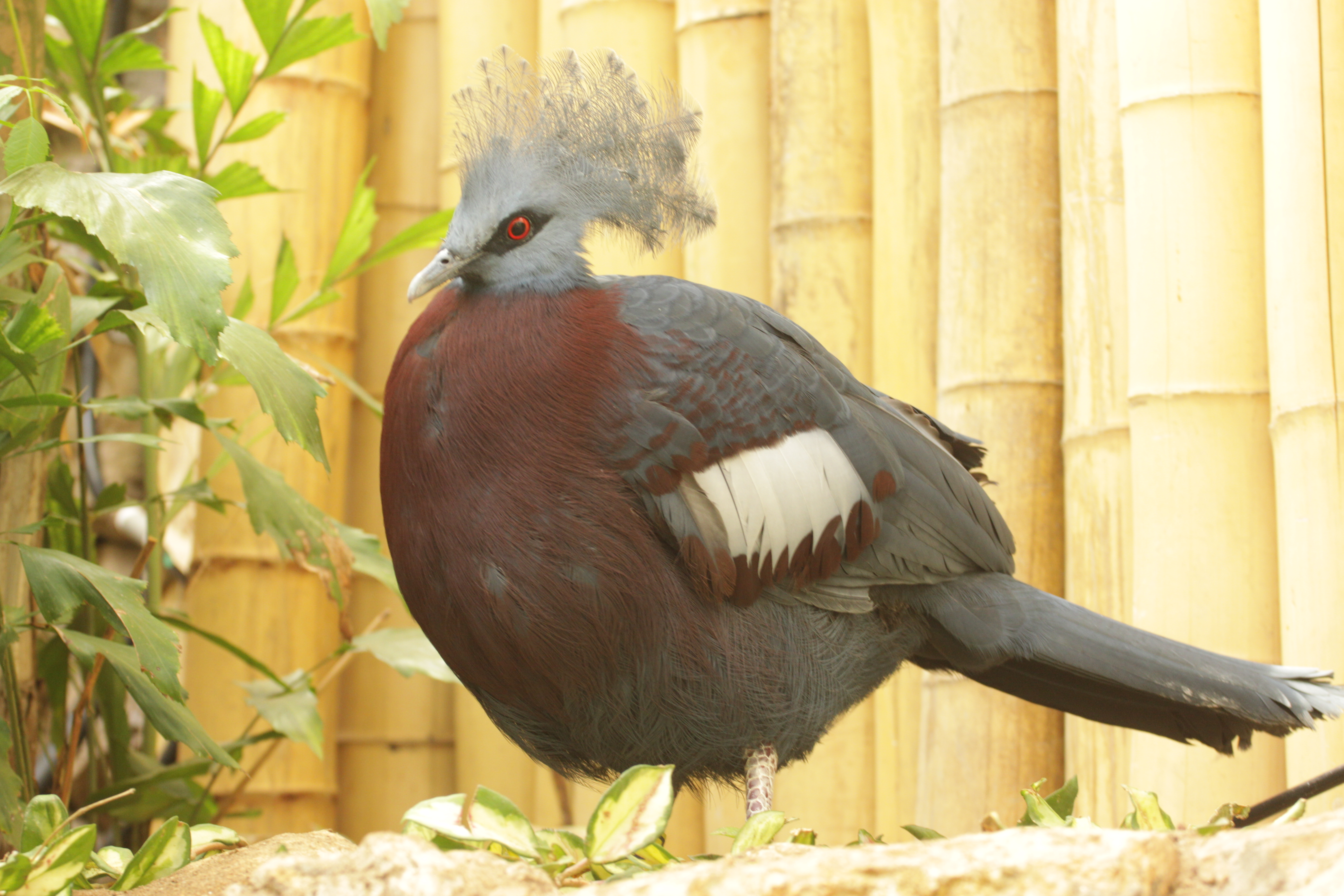 Goura sclaterii in Jerusalem Zoo